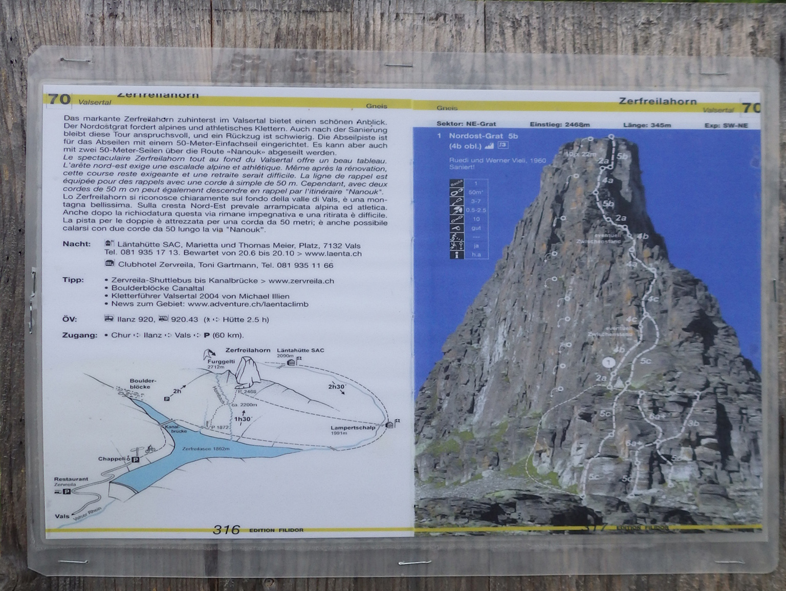 Climbing route on Zervreilahorn via northeast ridge, photographed sign-board is located next to the Zervreilasee, Vals, Grison, Switzerland